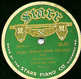 Starr Record label, late 1910s